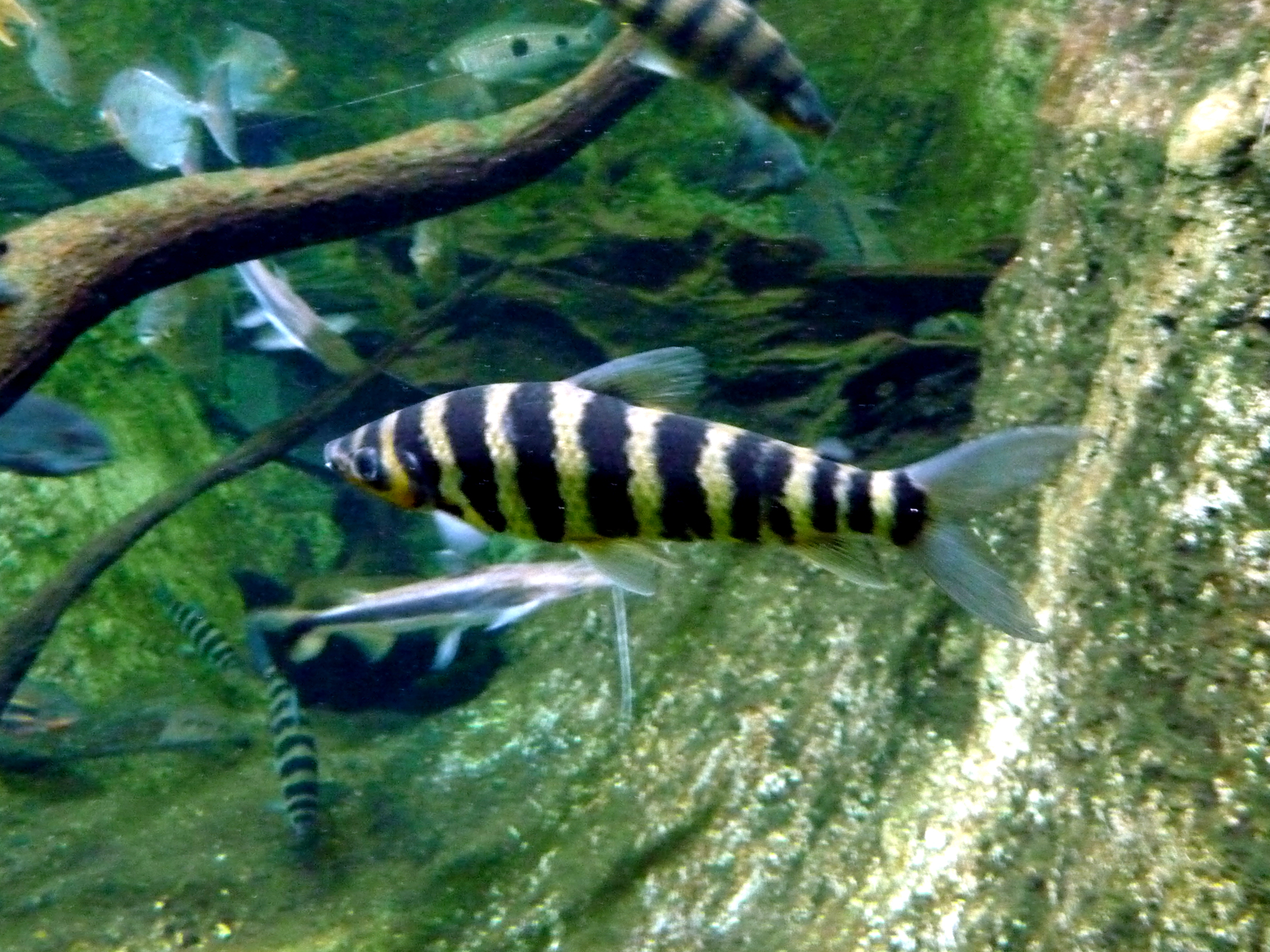 Leporinus fasciatus